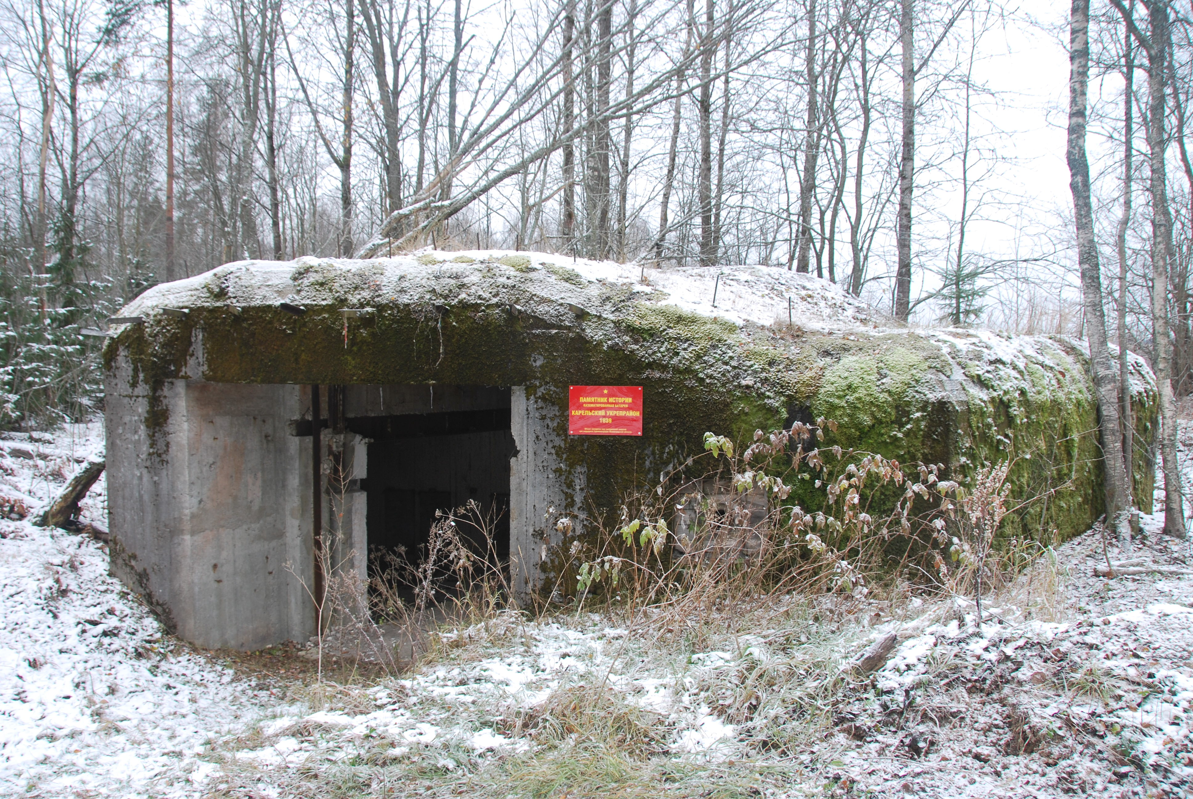 Fortification of Karelian fortified region in Kalelovo